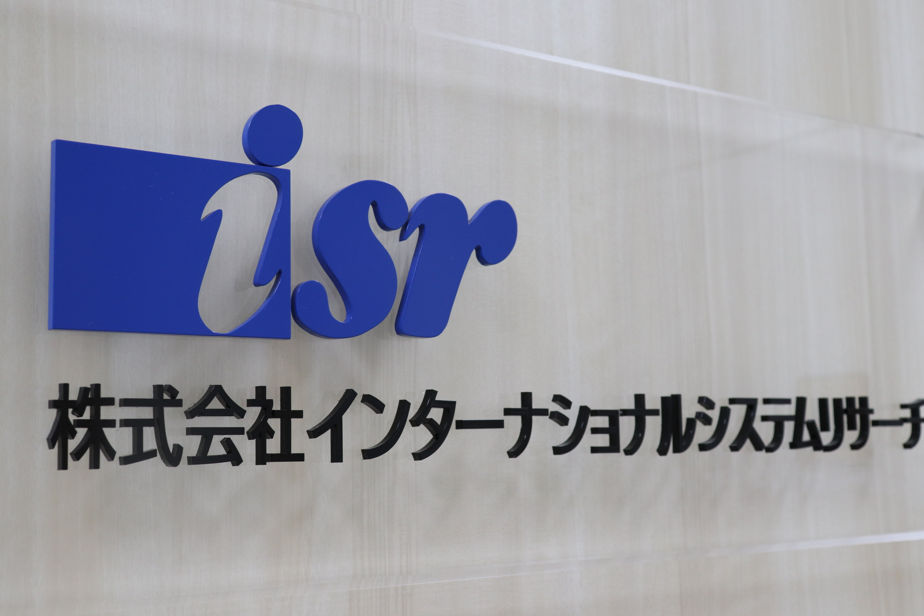 International Systems Research Co.